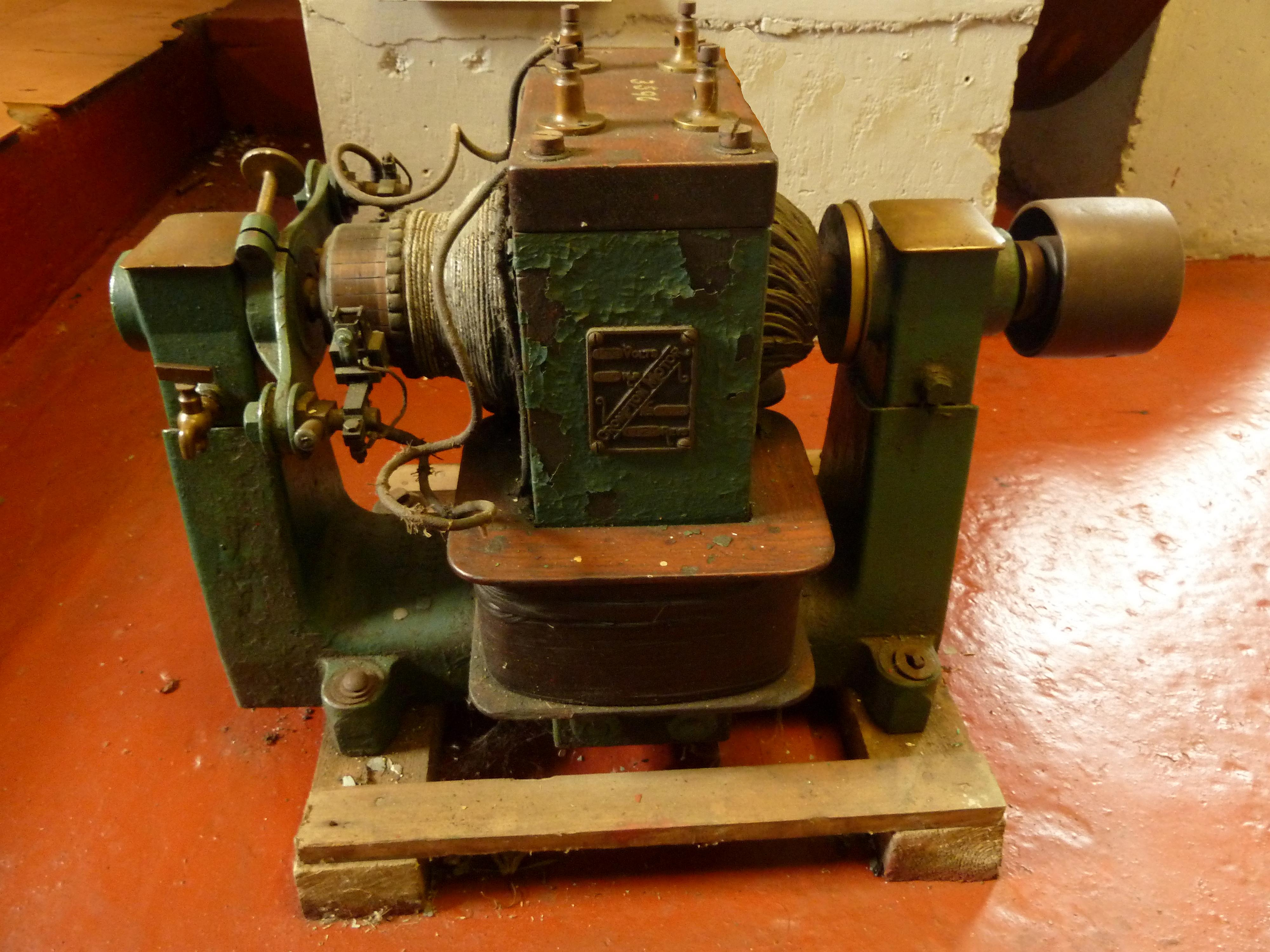 Bipolar dynamo Now on display at the Internal Fire museum.